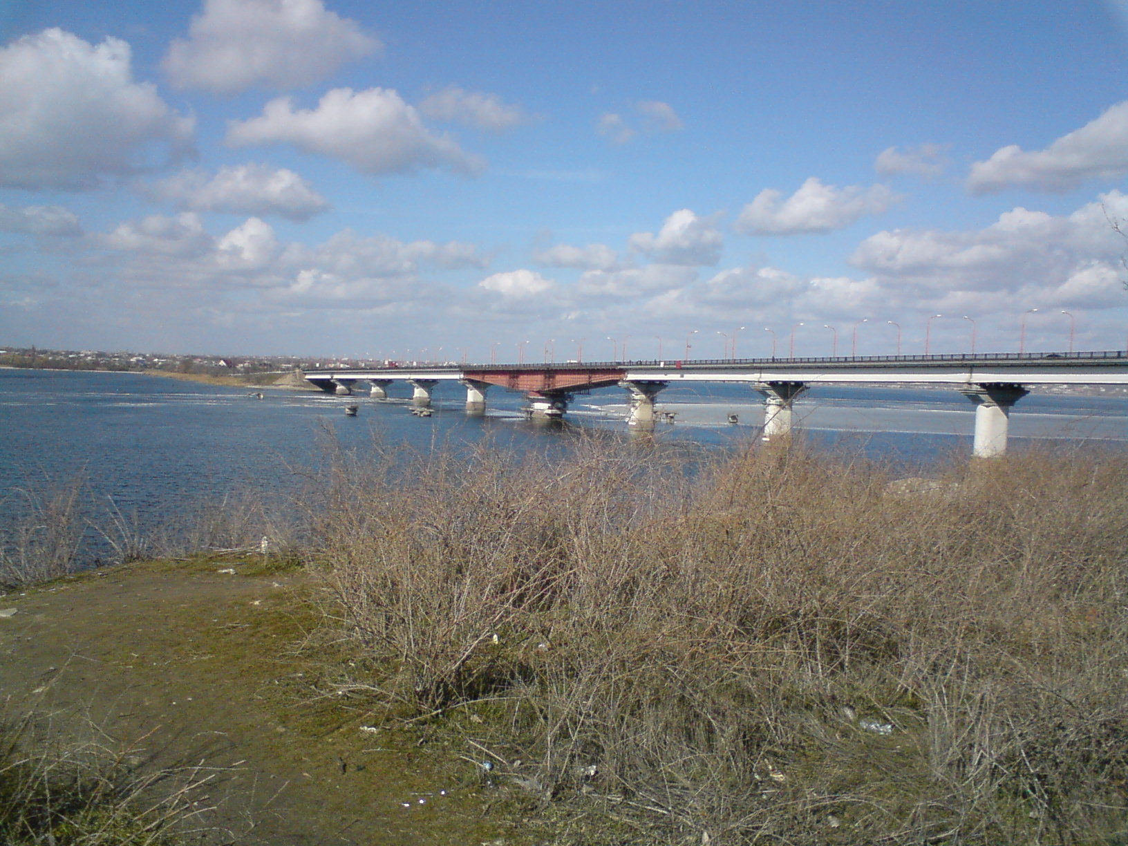 Varvarovskiy Bridge, Mykolaiv